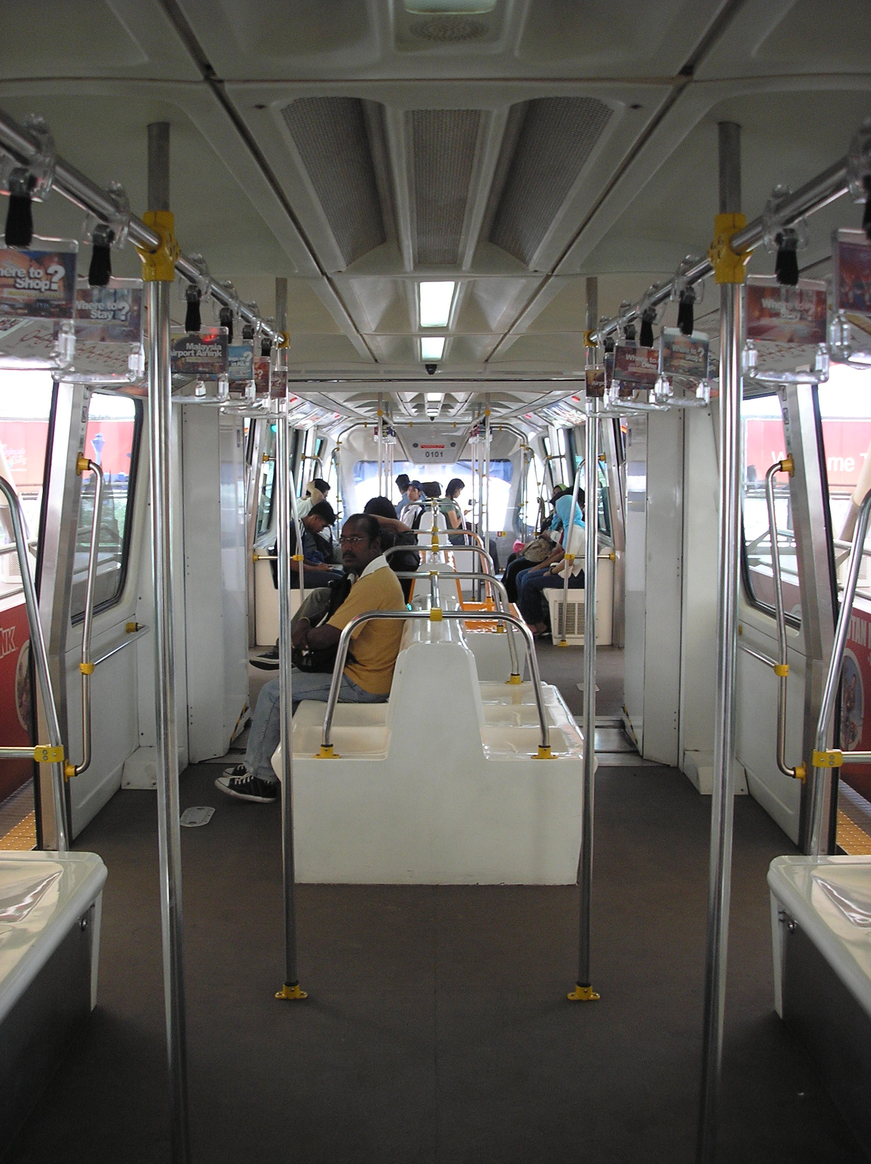 The interior of a Kuala Lumpur Monorail train.